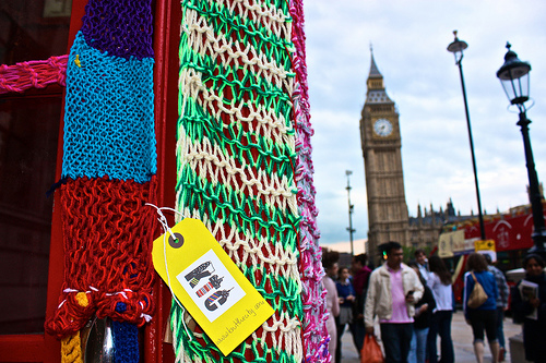 Phone Box Cosy by Template:Knit the City